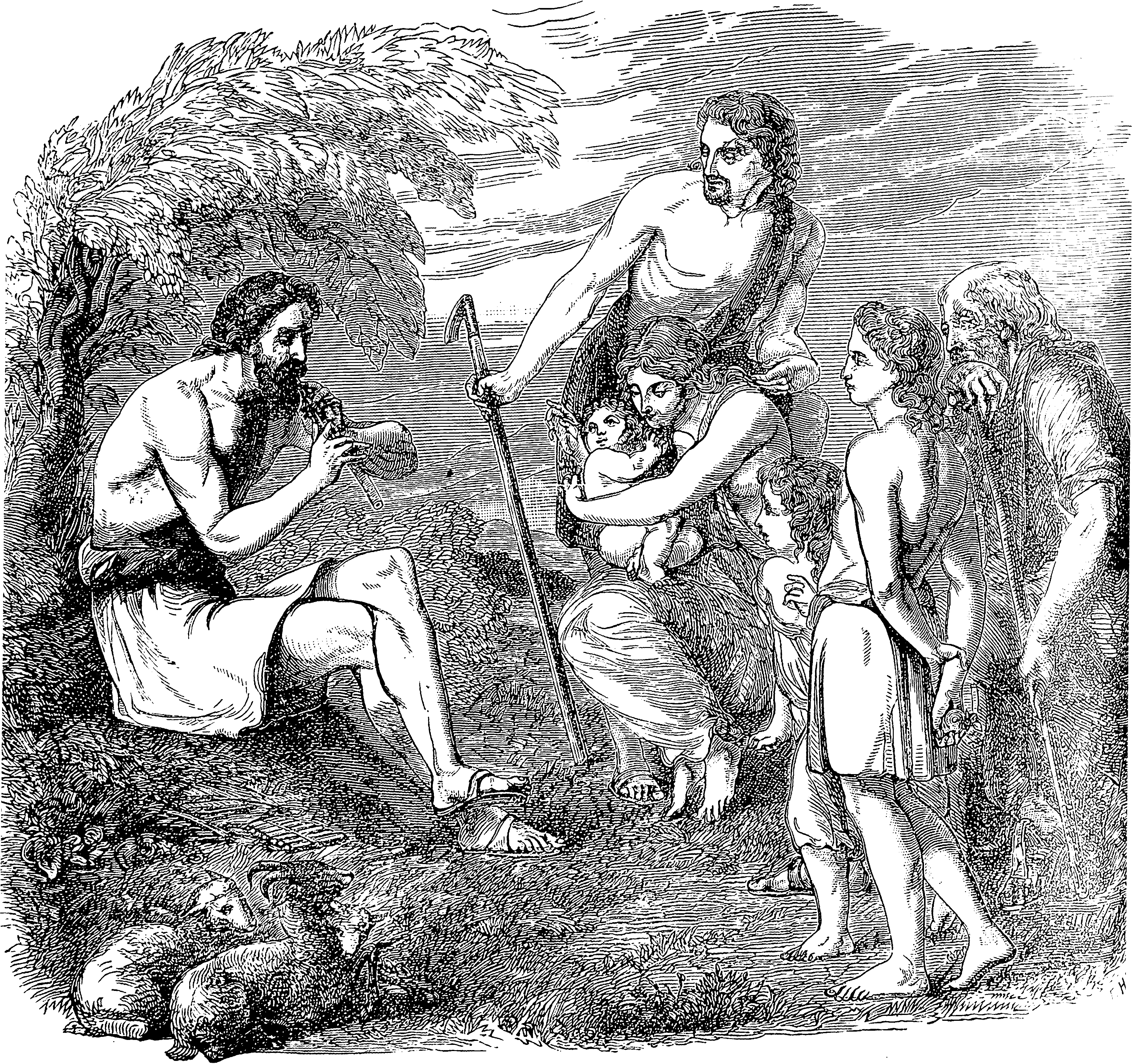 Jubal. Picture from popular bible encyclopedia of Archimandrite Nicephorus (1892).